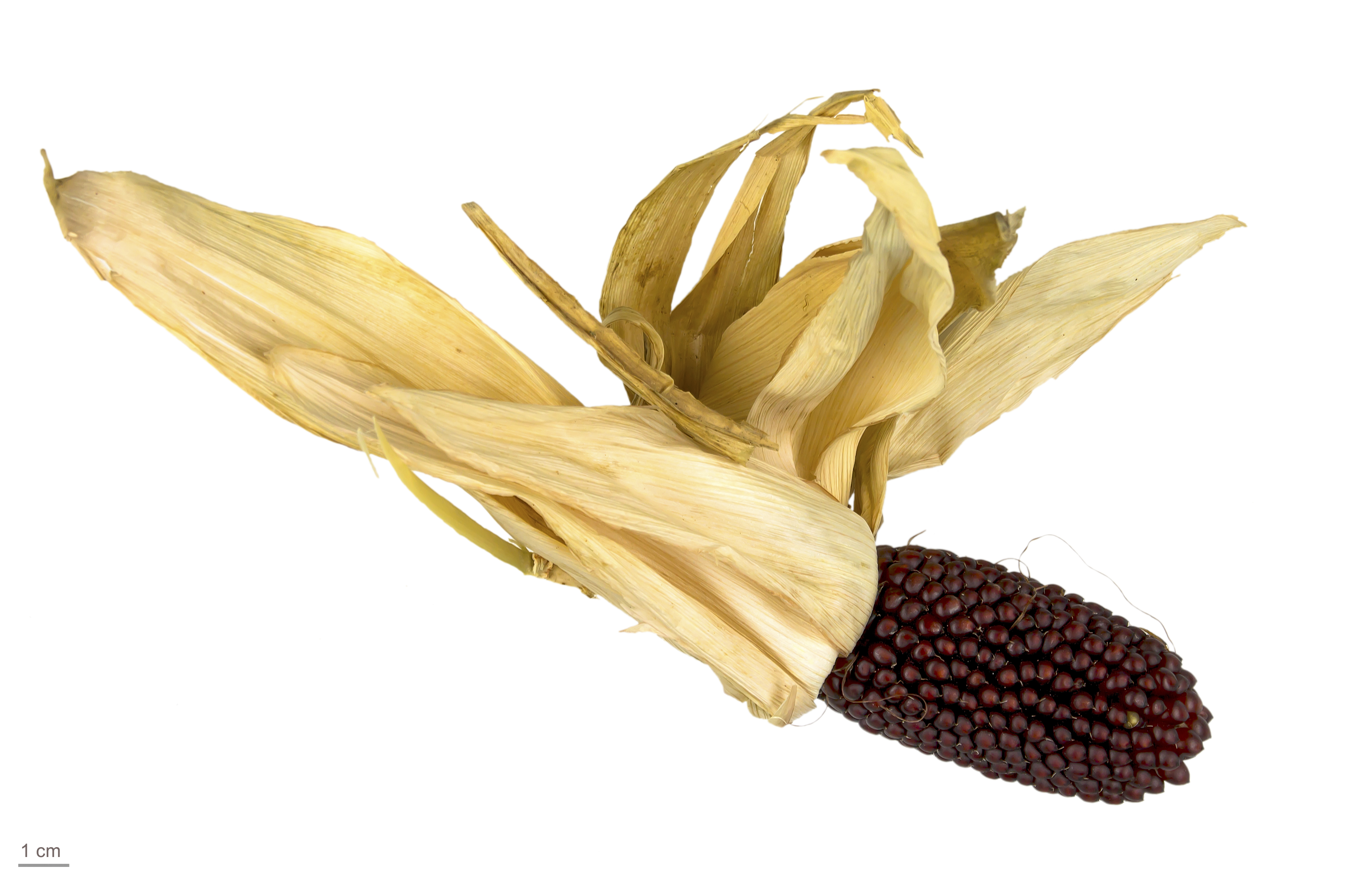 Zea mays "Strawberry", seeds